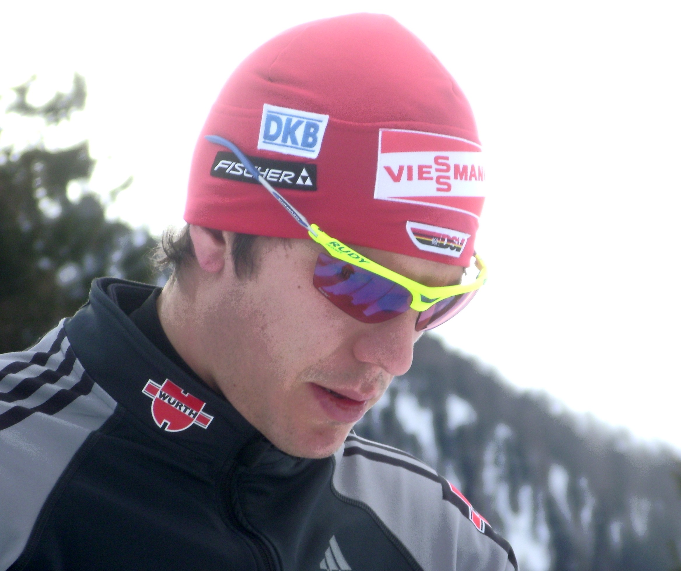 Arnd Peiffer in Antholz, 21-01-2010